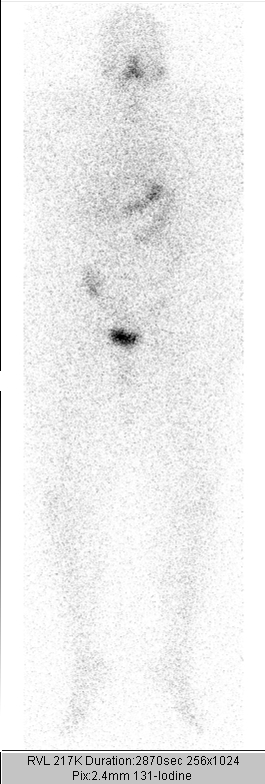 Whole-body-scan after 370 MBq Iodine-131. No rest of the thyroid detectable.